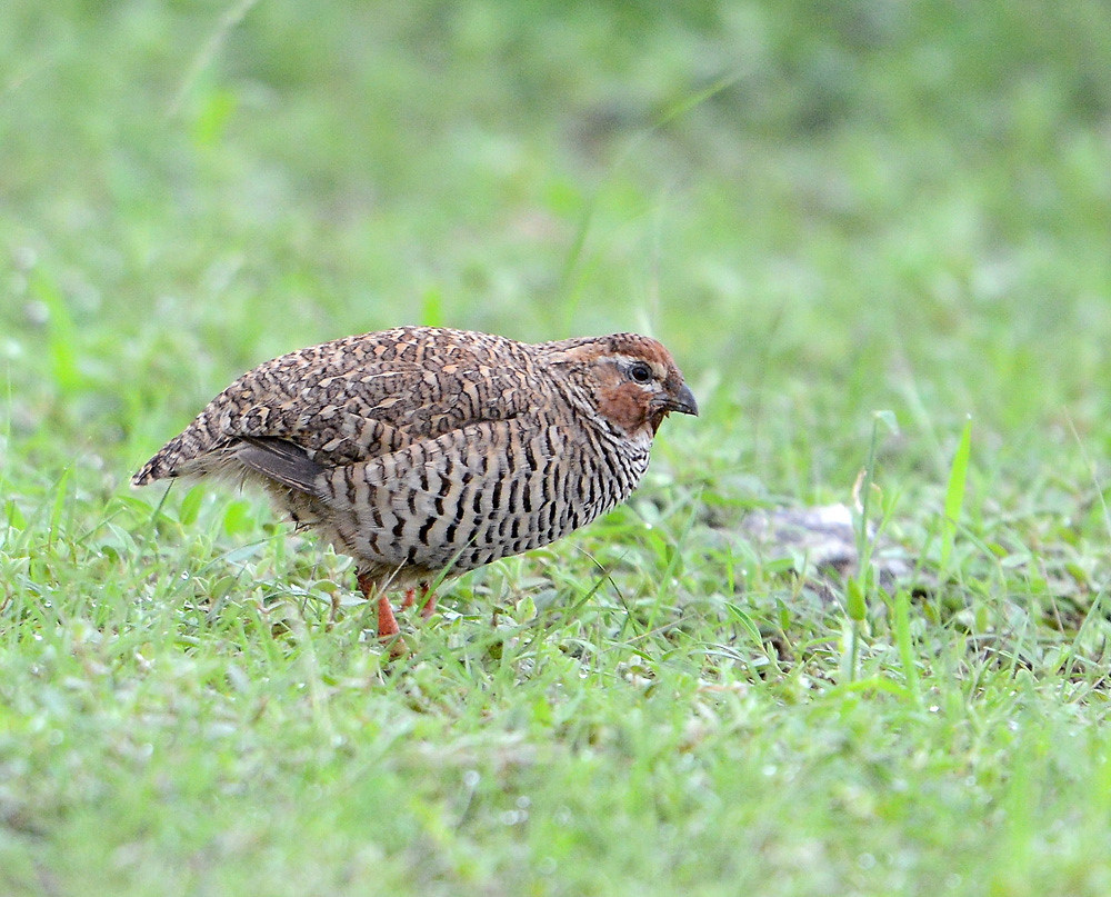 A male Rock Bush Quail in Rajasthan, India. Perdicula argoondah, Rock Bush Quail is a shy and secretive inhabitant of Western and North Western India. It can be found in stony barren land with small scrubs. It is a challenge to photograph this small cutie. This is a male bird.